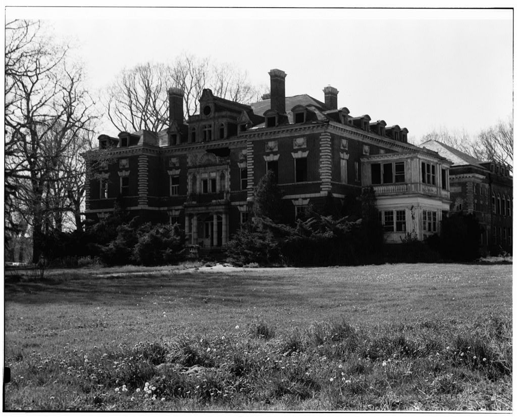 Thomas Asylum for Orphan & Destitute Indians, Administration Building, Route 438, Cattaraugas Reservation, Irving, Erie, NY (VIEW NORTHEAST SHOWING WEST AND SOUTH (FRONT) ELEVATIONS )